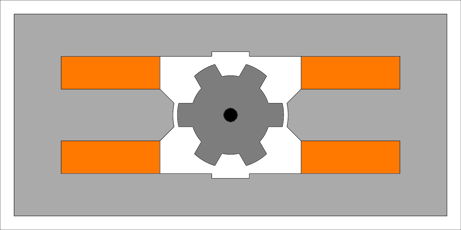 A schematic representation of the Hammond synchronous motor as found in early organs. The structure has been derived from the original patents.